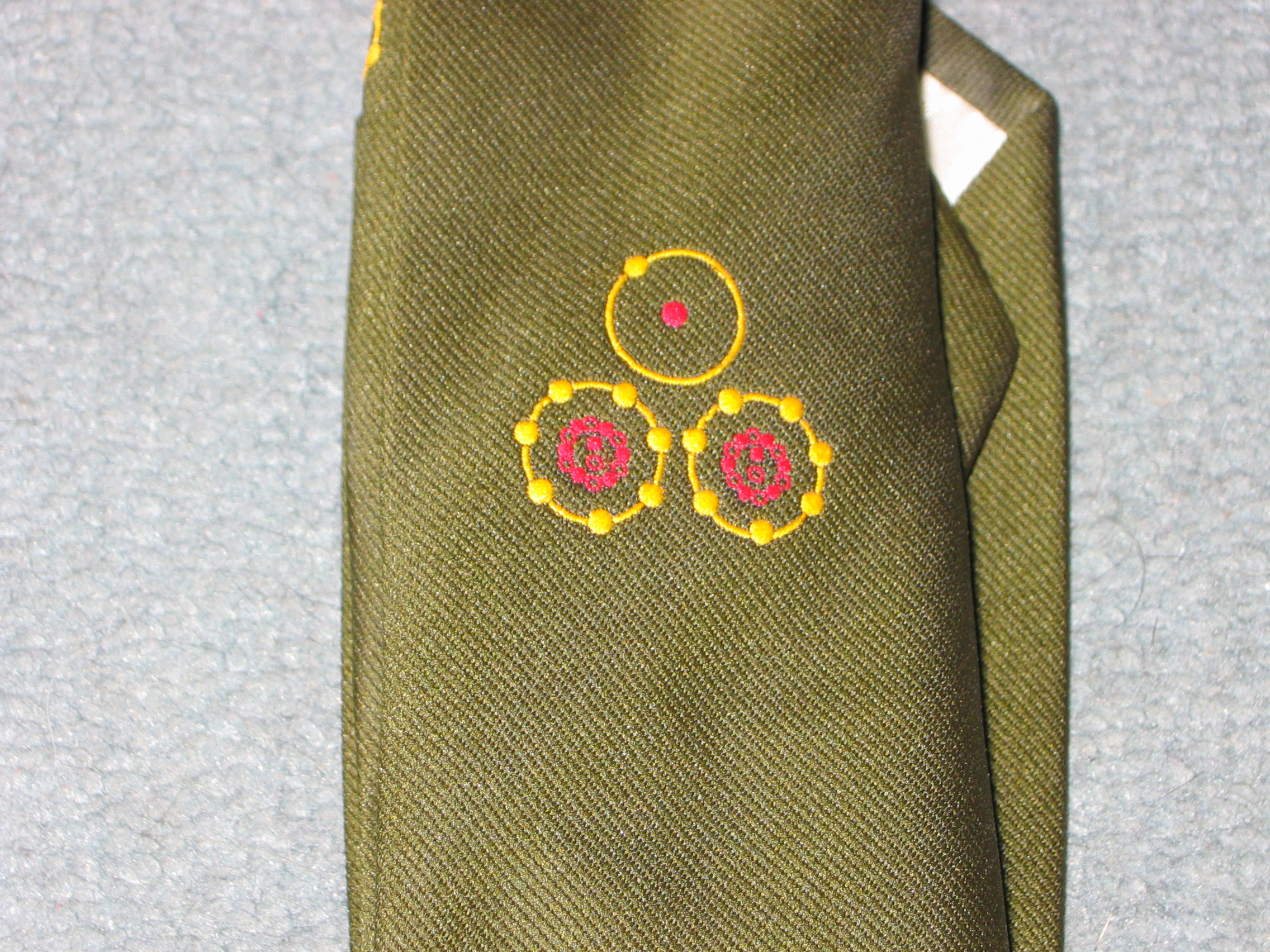 WE177 Project Tie. Detail from the official WE.177 project tie. The project code and a graphic image symbolising the project are depicted in the pattern. The WE.177 project was denied a project tie for many years because the project code was, unusually, itself classified. Eventually, someone devised a design symbolising both the code and the project without it being obvious unless one knew what the pattern represented. The atoms depicted are of hydrogen and (underneath) two atoms of nitrogen. Atomic numbers 1, 7 and 7 respectively. Photo by Author